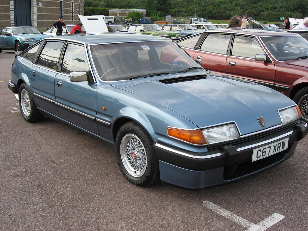 1986 Rover Vitesse at the SD1 Club Cay at the British Motoring Heritage Museum, Gaydon.